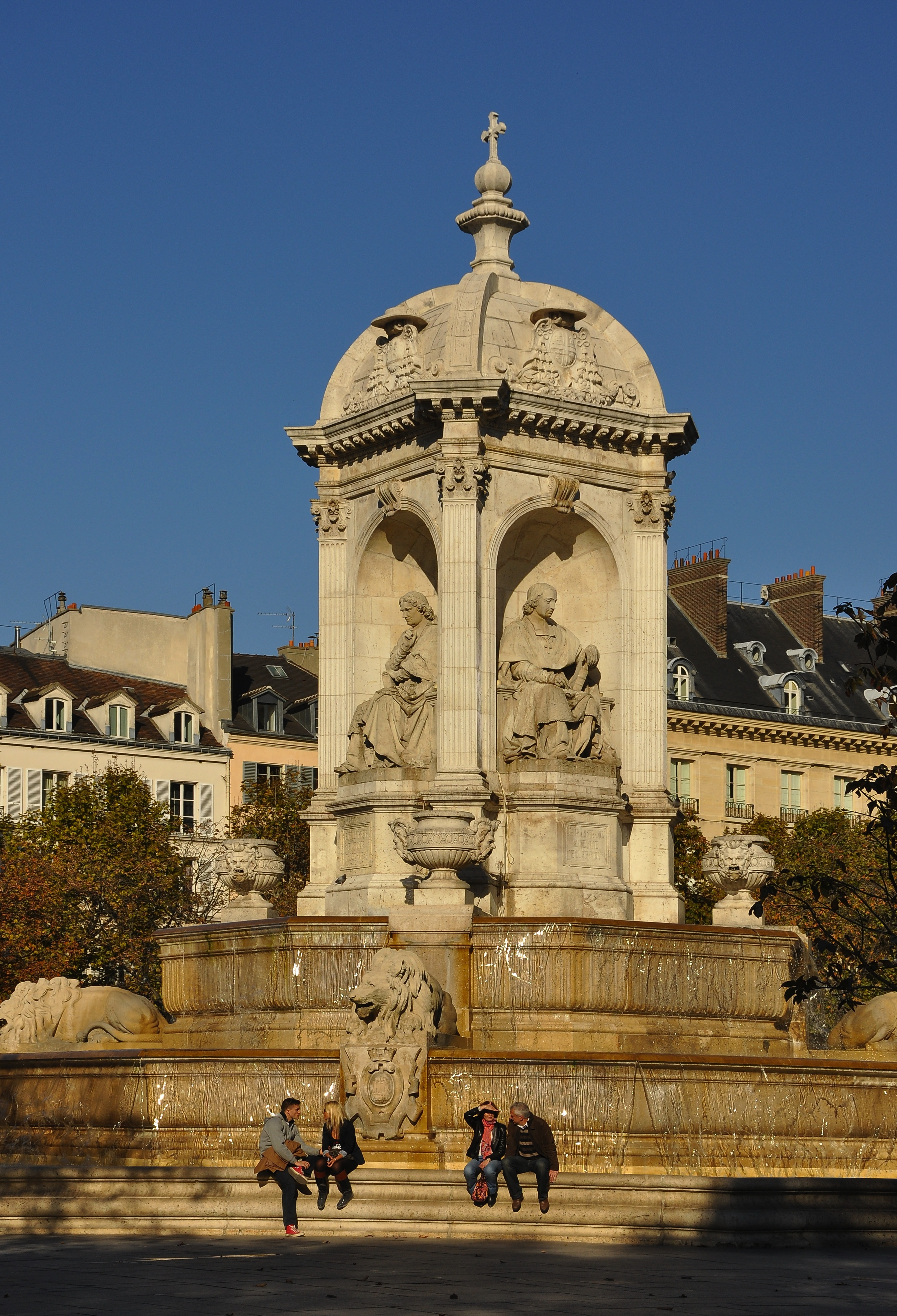 Fontaine Saint-Sulpice at 6th district of Paris in France. Built by architect Louis Visconti and the sculptor Jacques-Auguste Fauginet in 1848. .